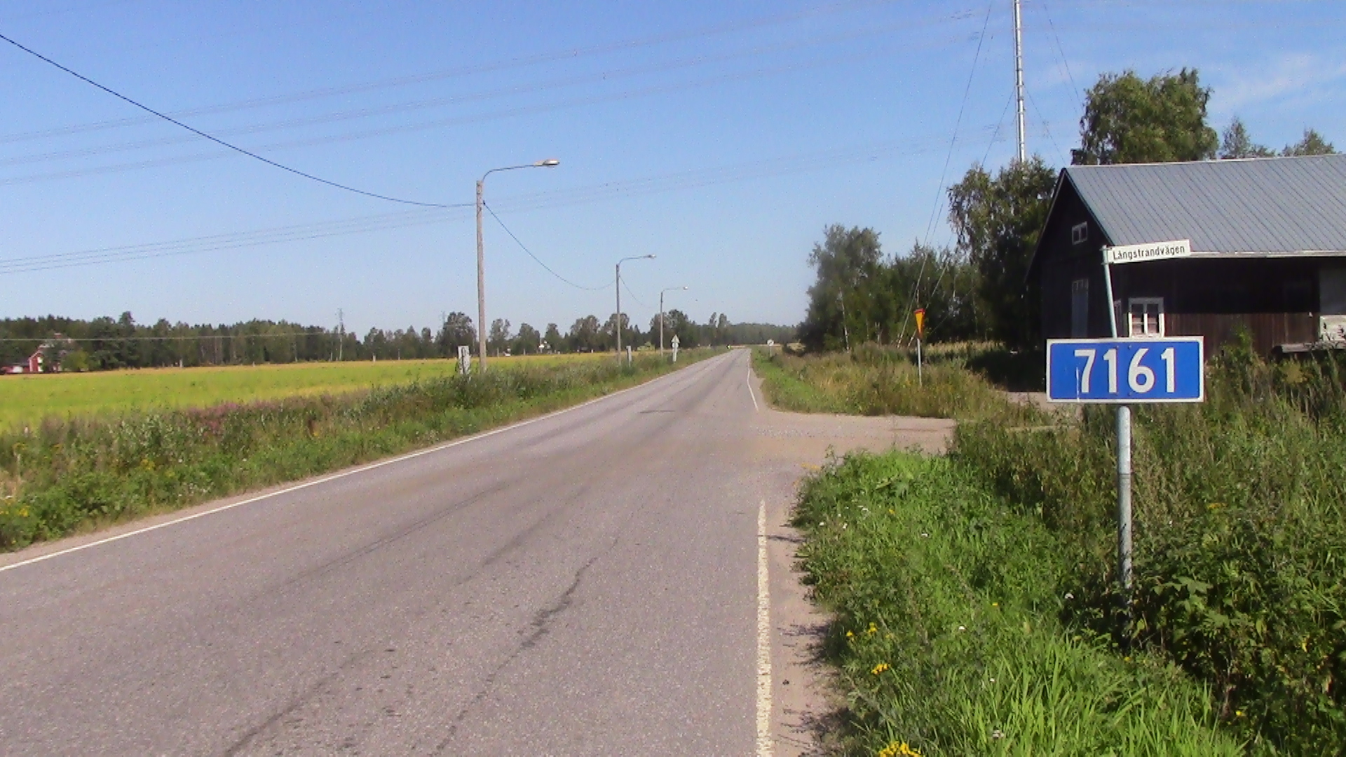 Connecting road 7161 at crossing of Långstrandvägen in Korsholm.